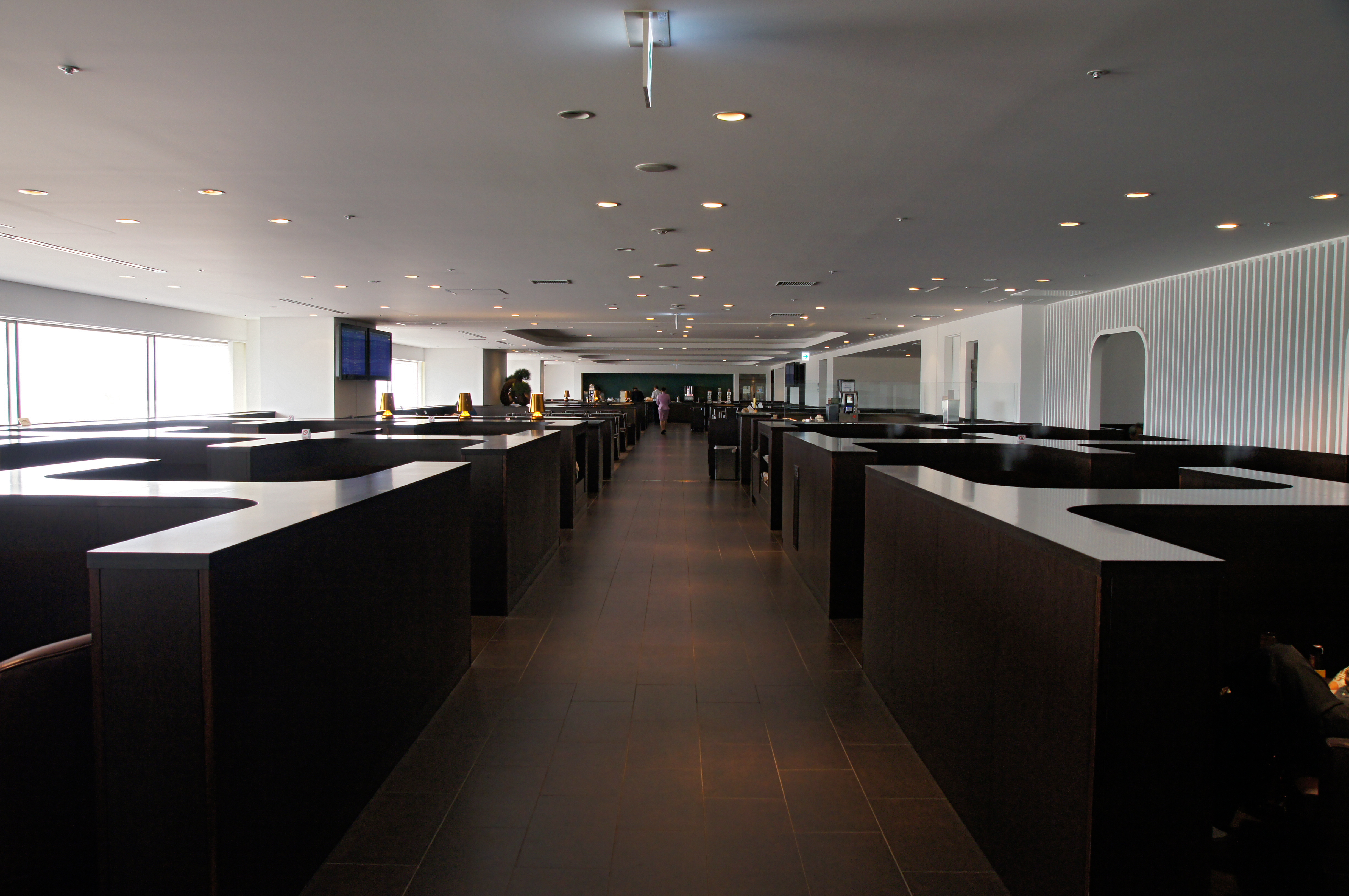 Diamond Premiere Lounge of Tokyo International Airport (Domestic) in Tokyo, Japan